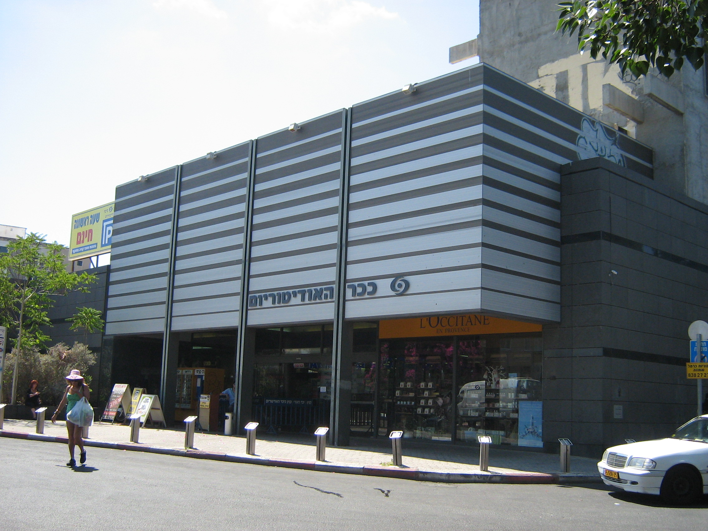 the area around Beit Hecht, Rapaport Centre and the Haifa Auditorium complex Mall underneath the Haifa Auditorium